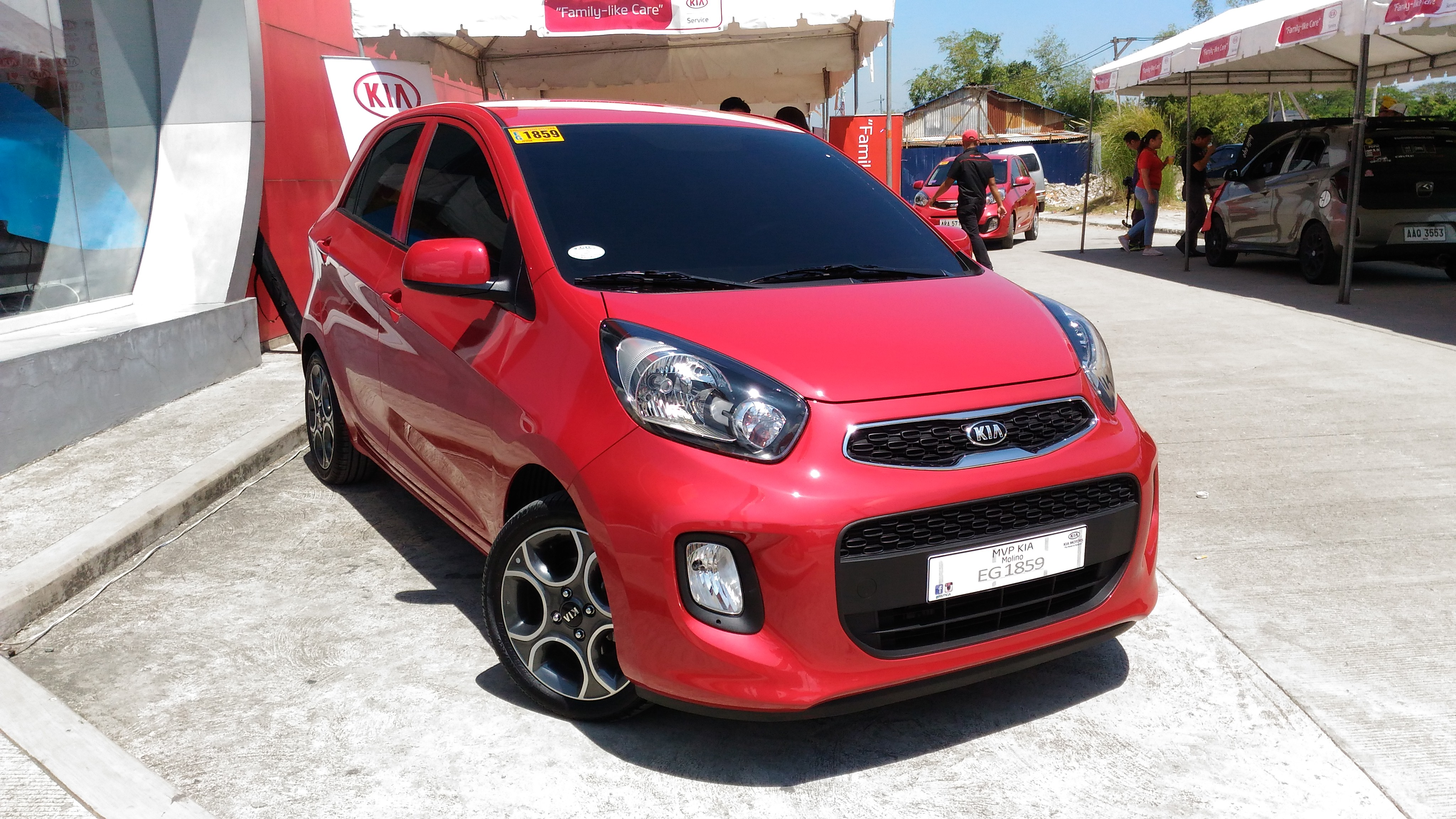 2016 Kia Picanto 1.2 EX A/T (Philippine model). Photographed at Kia Motors Molino, Bacoor, Cavite, Philippines.